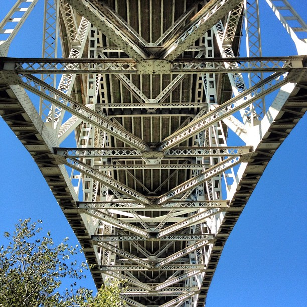 industrial #99 #bridge #seattle #grid #aurora #beauty #blue #sky